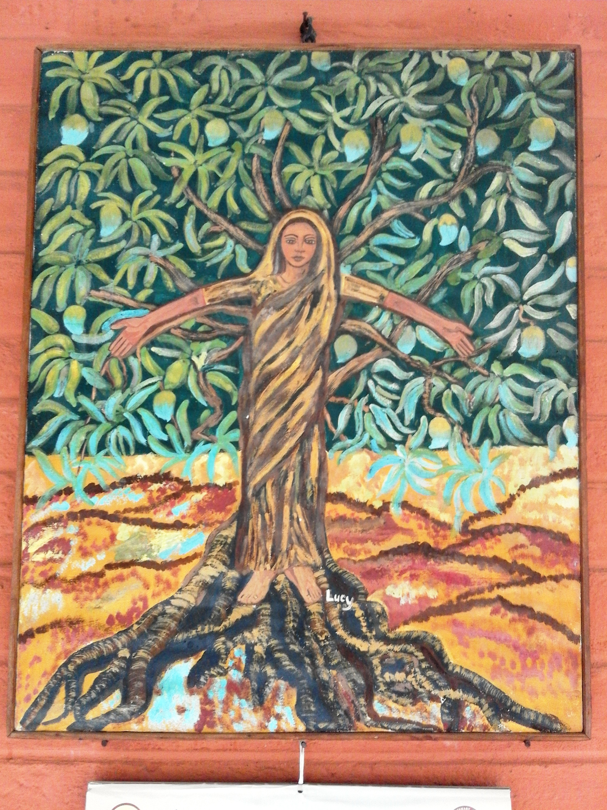 Mysore city, Mysore district, Karnataka province, India.